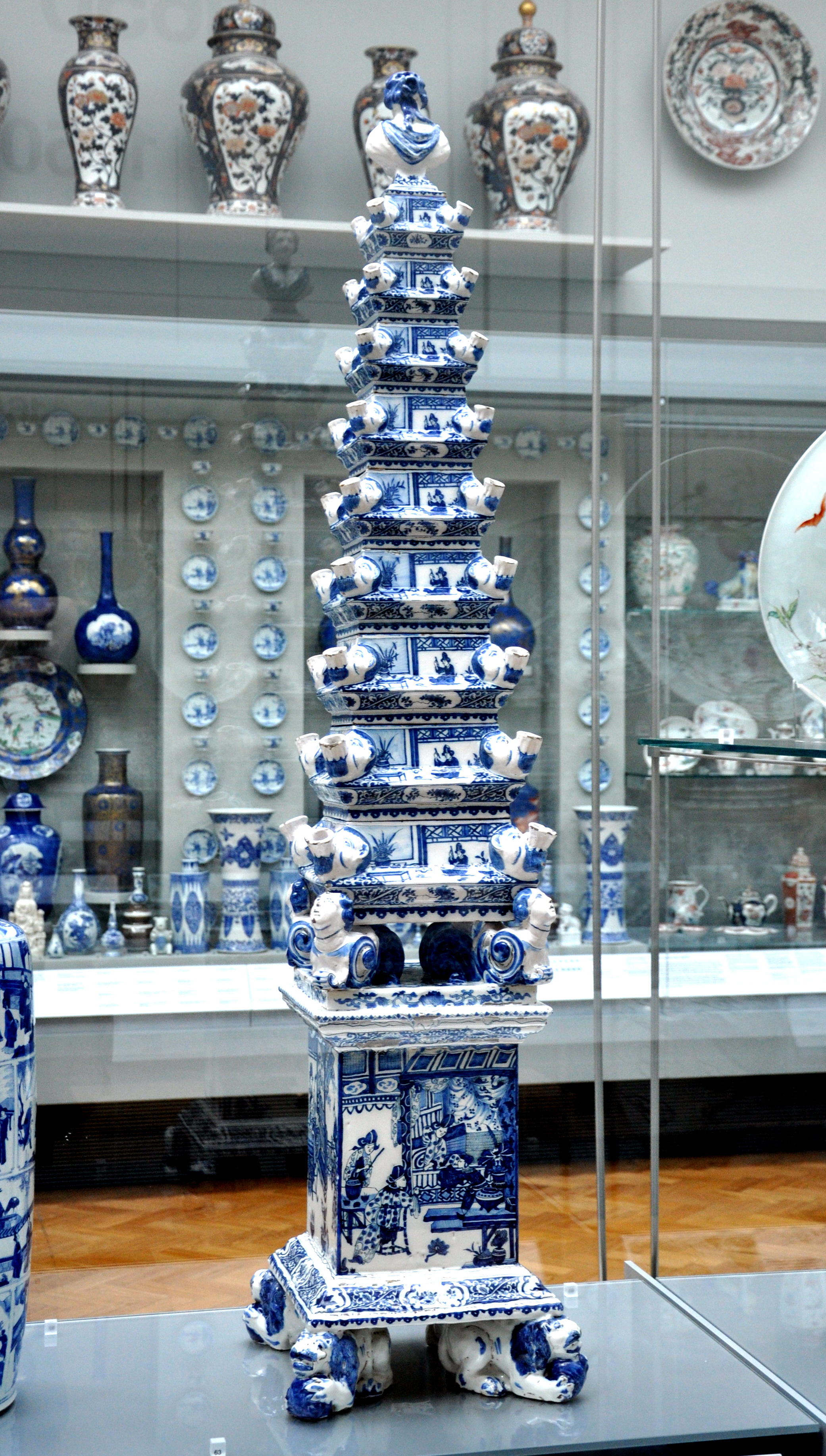 Flower pyramid, c. 1695, Greek A factory, Delft; tin-glazed earthenware, painted; Height: 160 cm Victoria and Albert Museum, London, museum no. C.19 to J-1982 (Link)